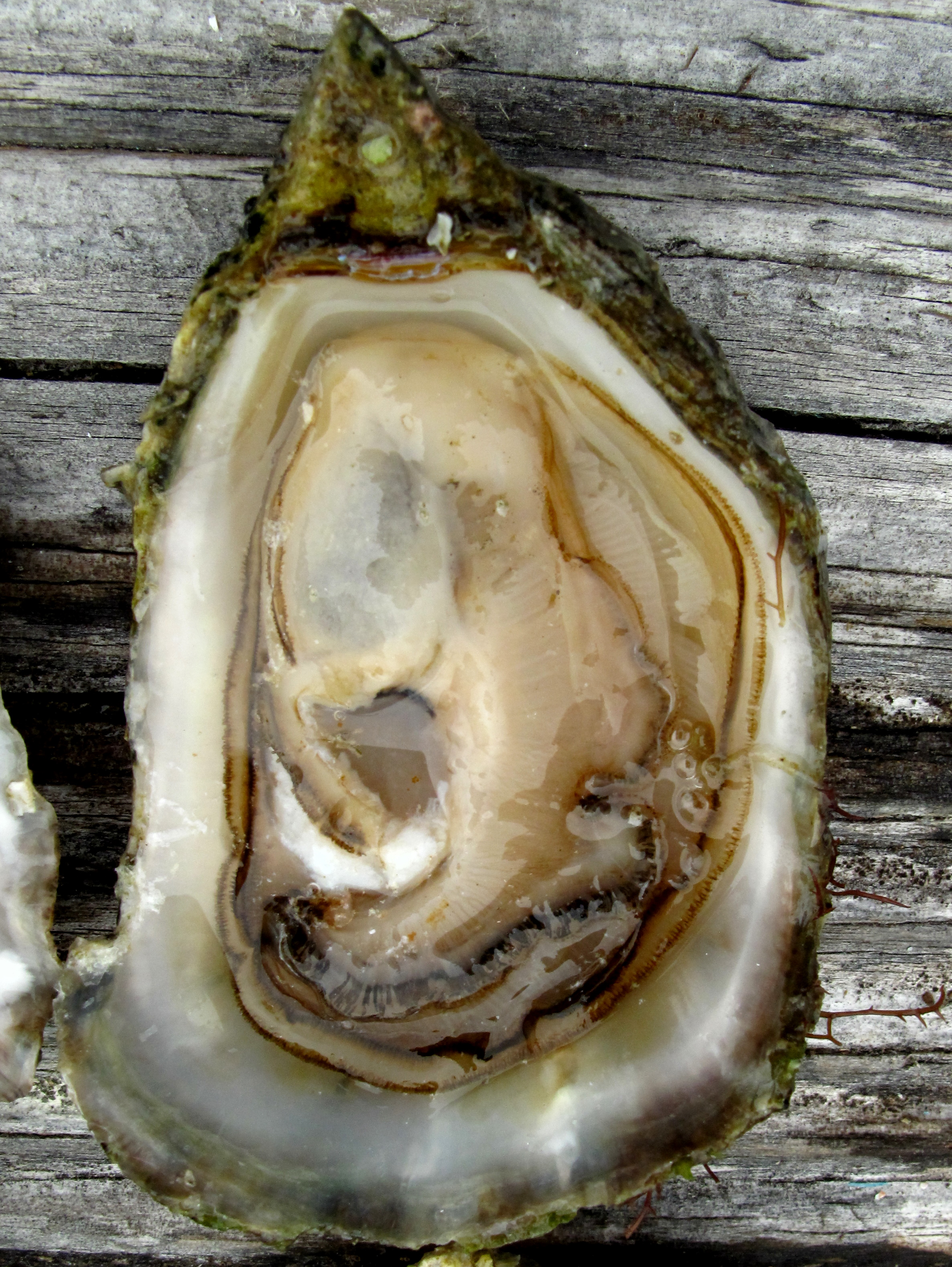 The Olympia oyster, Ostreola conchaphila, is the native oyster of the Pacific coast of North America from Alaska to Mexico. The name is derived from the important 19th century oyster industry near Olympia, Washington, in Puget Sound.